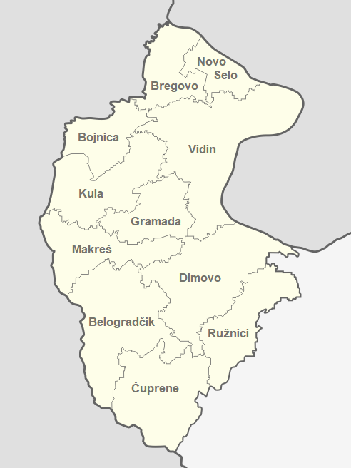 Croatian names on map of Vidin District (Bulgaria)